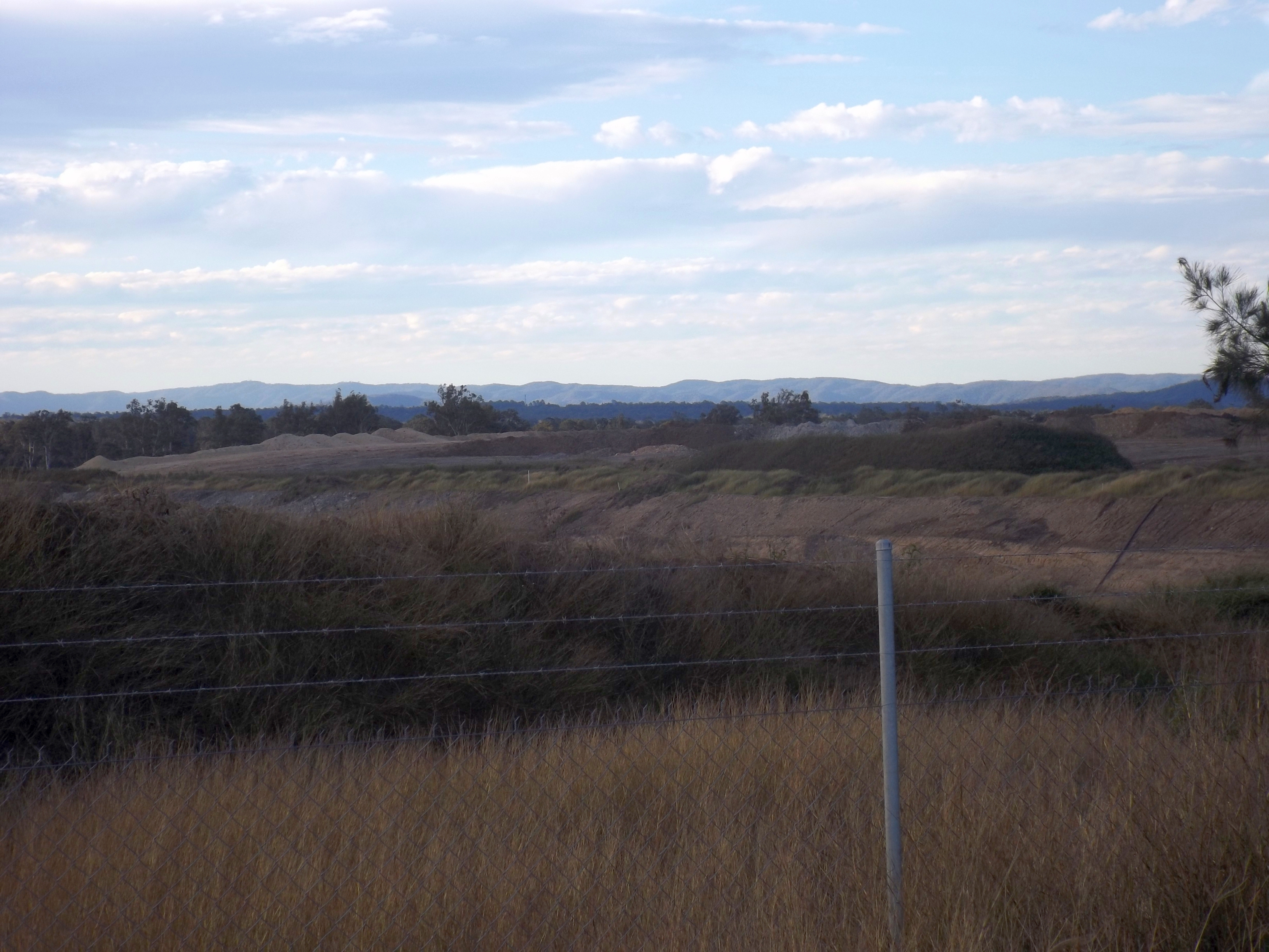 Photo of Jeebropilly Mine to the north of Ipswich Rosewood Road at Jeebropilly, Ipswich, Queensland, Australia.